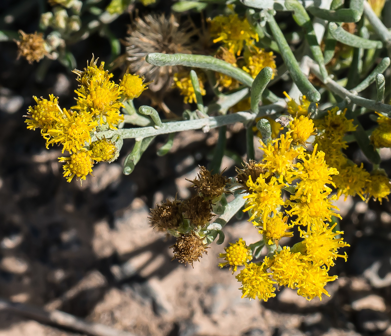 Schizogyne sericea, Gran Canaria